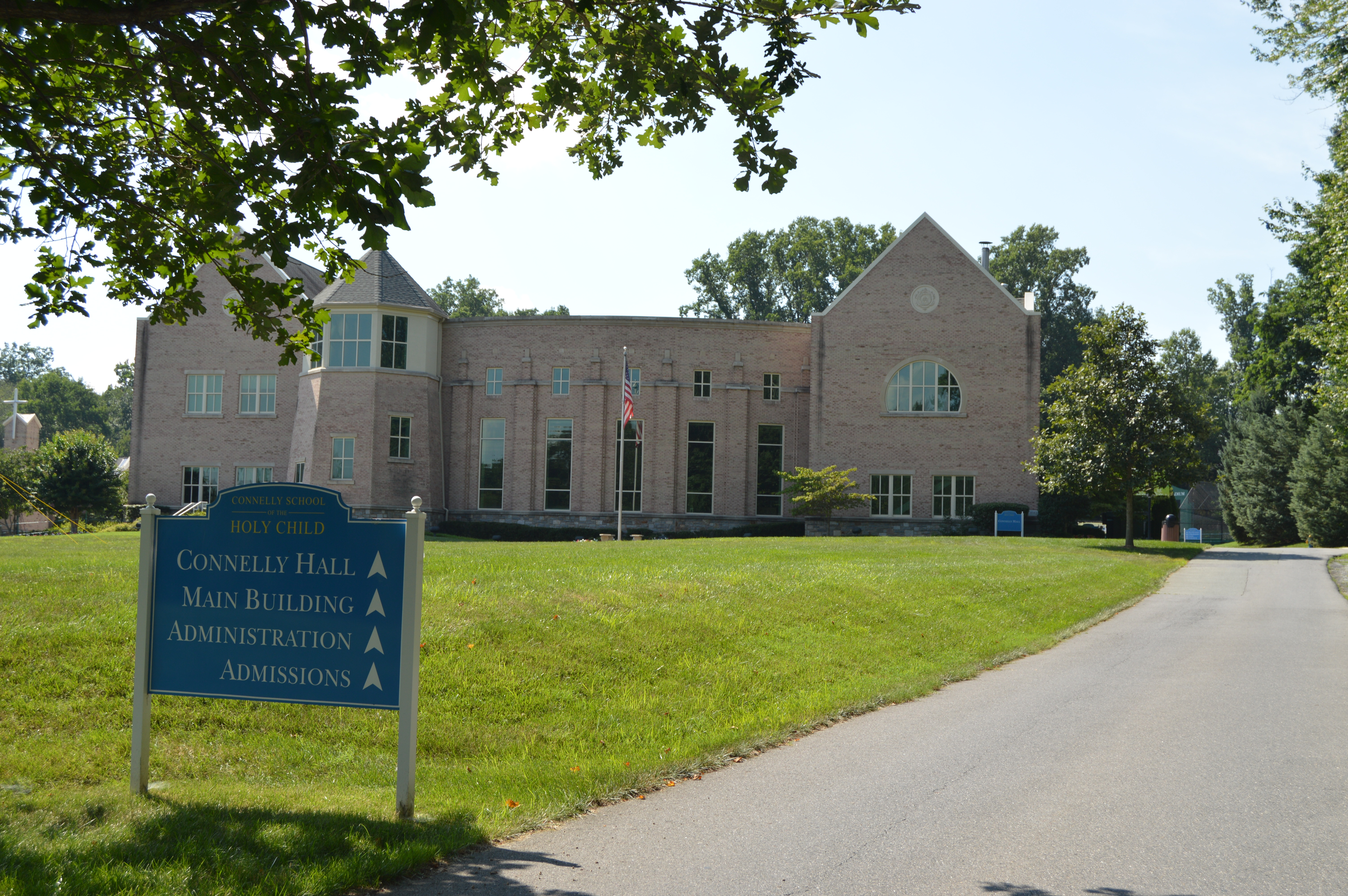 Image of Connelly School of the Holy Child in Potomac, Maryland